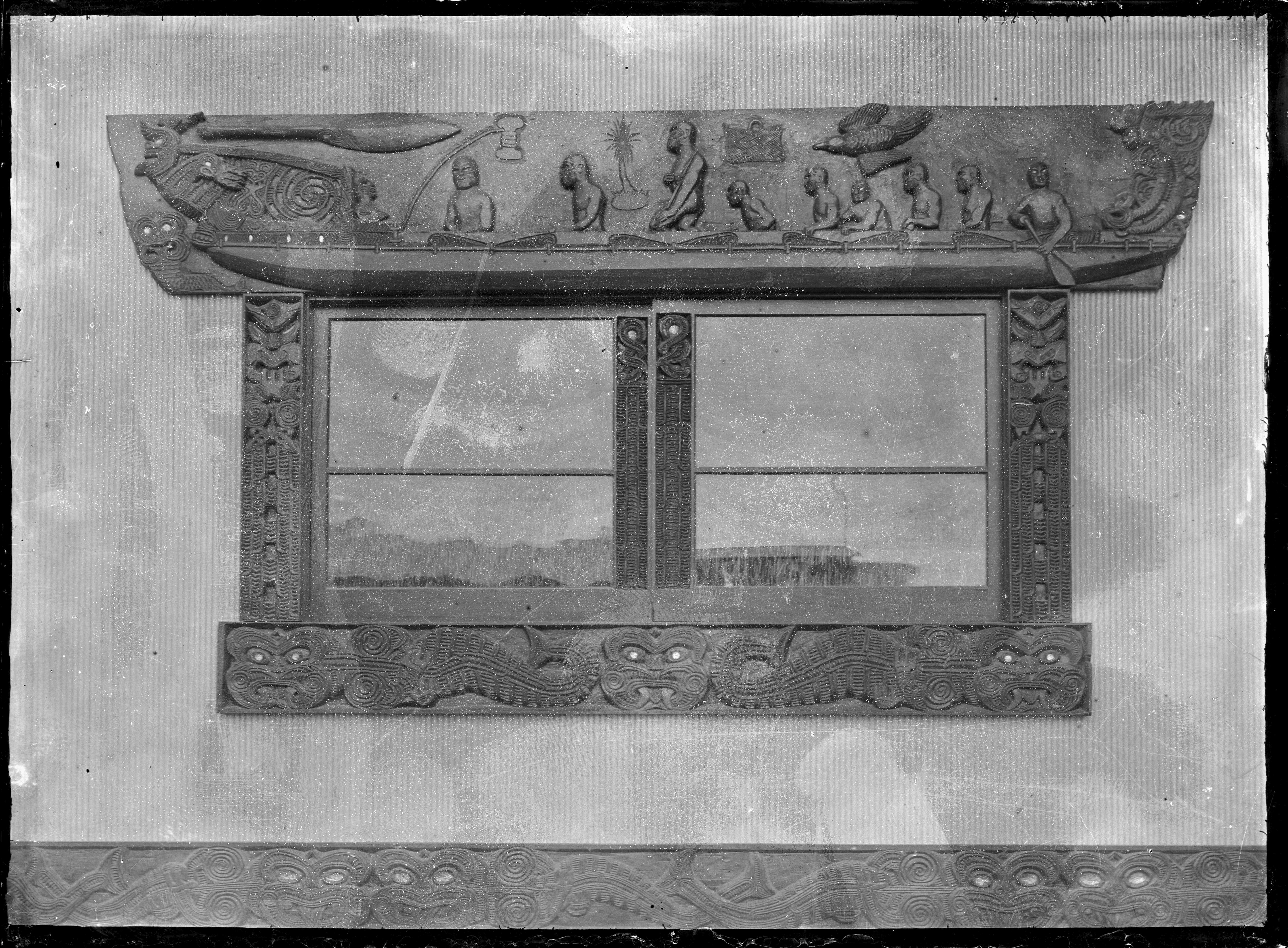 The korupe (carving over the window frame) at Mahina-a-Rangi meeting house at Turangawaewae Marae, Ngaruawahia. It shows the Tainui canoe (ca. 1350) with its captain, Hoturoa. Above the canoe is Te Hoe-o-Tainui, a famous paddle, the kete (kit) given to Whakaoterangi by a tohunga of Hawaiki, the bird Parakaraka (front) who was able to see in the dark, and another bird who warned of approaching daylight. See "Maori meeting houses of the North Island" by John C M Cresswell, 1977 (p 31). Photograph taken by Albert Percy Godber, circa 1930s.